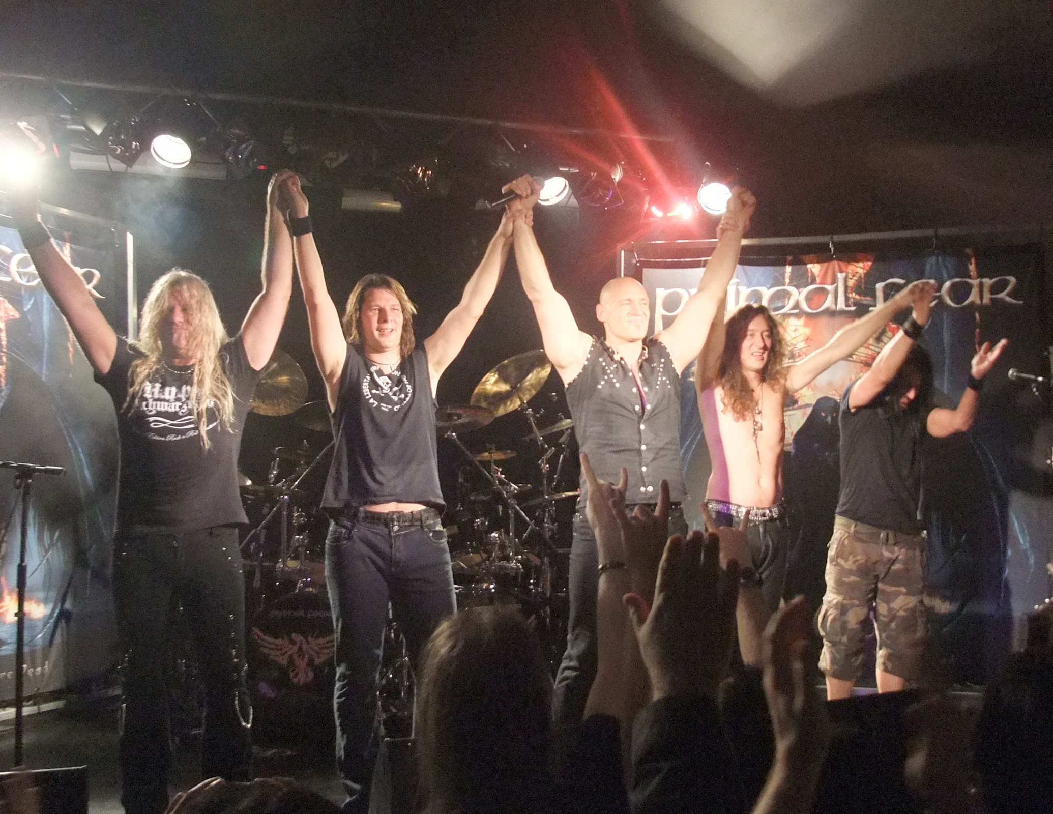 Primal Fear performing live at The Garage in London, 25th September 2009